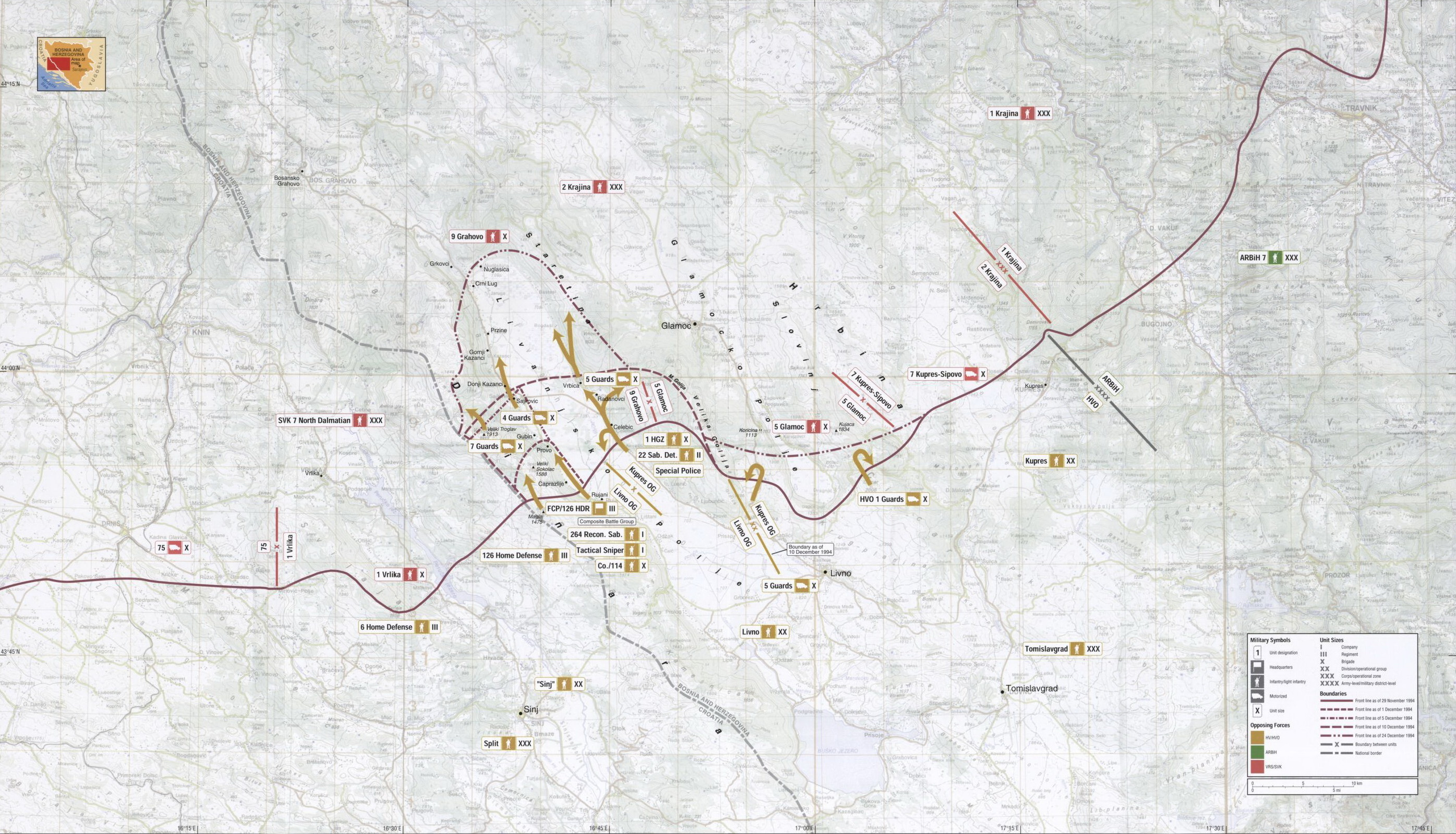 Map of Croatian Army and Croatian Defence Council offensive Operation Winter '94 (Livno Valley, Bosnia and Herzegovina and Dinara Mts. along Croatia-Bosnia border; November-December 1994). Balkan Battlegrounds Map 40 (cropped from original to show a narrowed down area of the offensive, moved map key to appear in the cropped area)